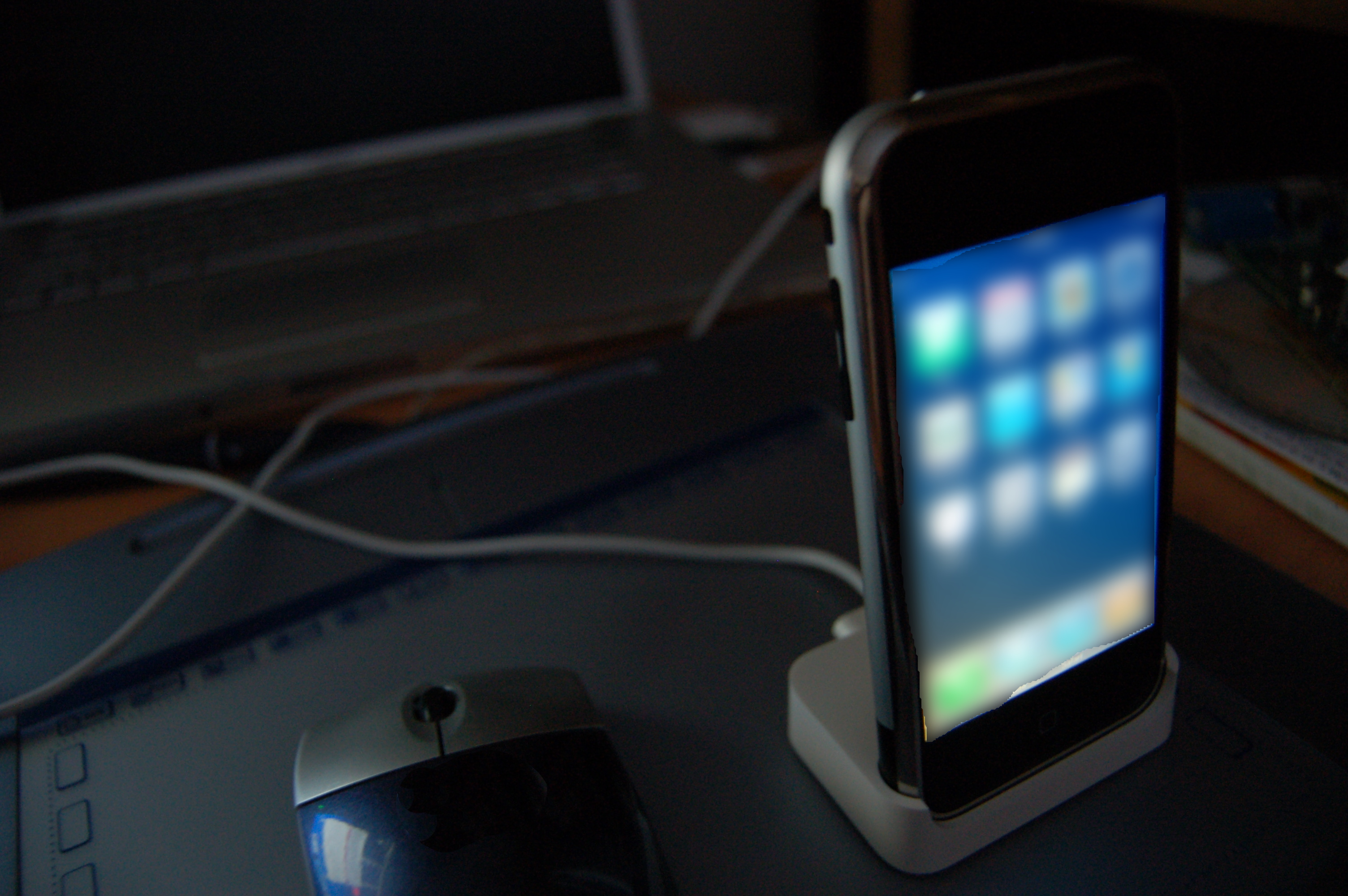 iPhone charging in its dock.